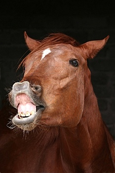 sjp horse